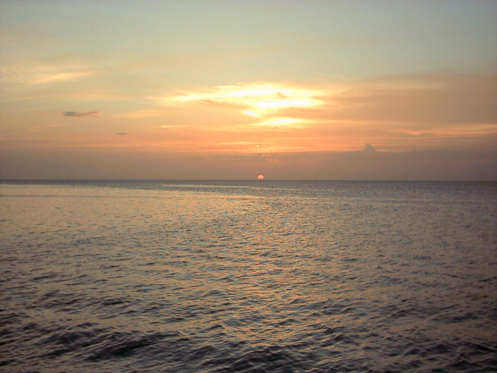 Sea and sun in Campeche, Mexico.